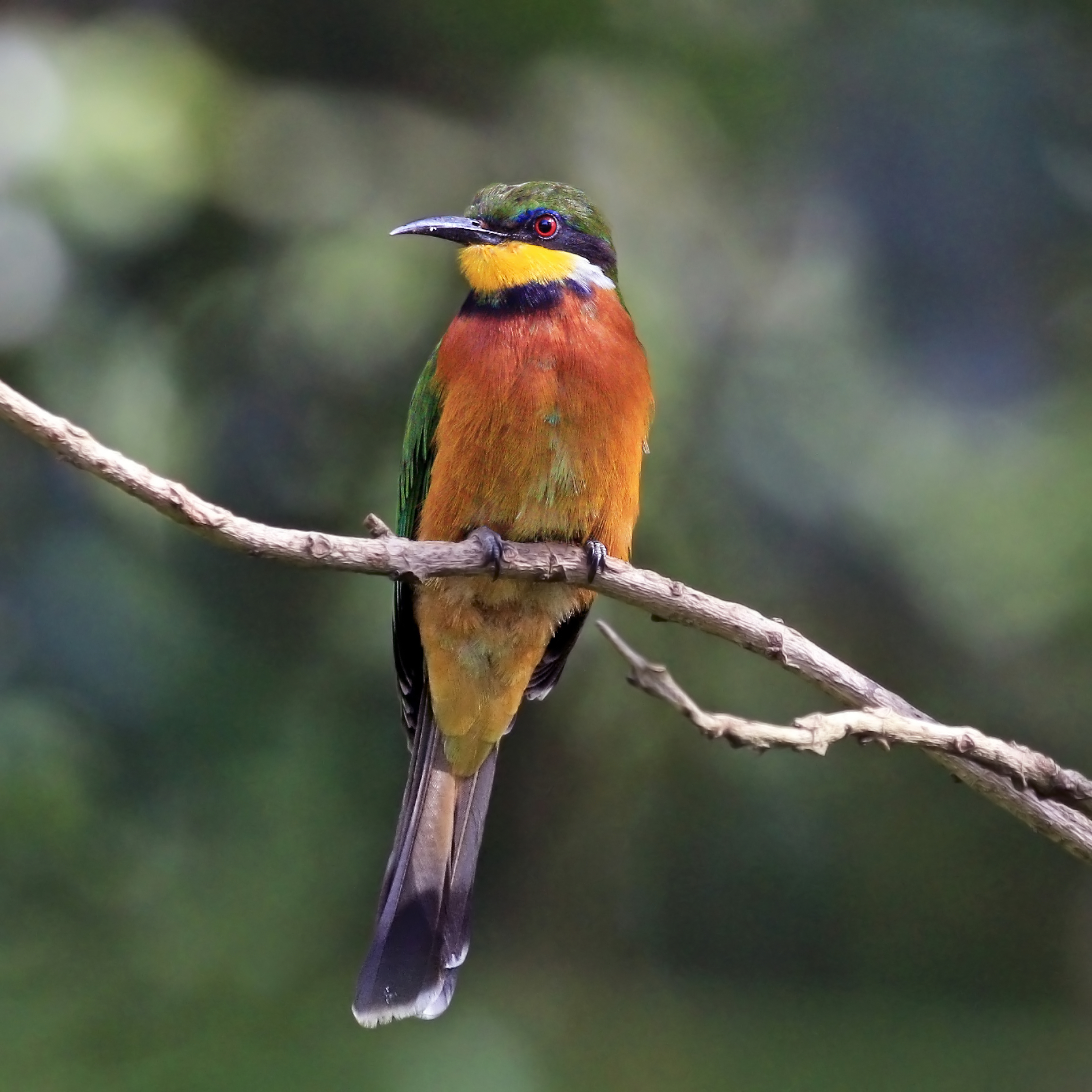 Cinnamon-chested bee-eater (Merops oreobates), Kakamega Forest, Kenya